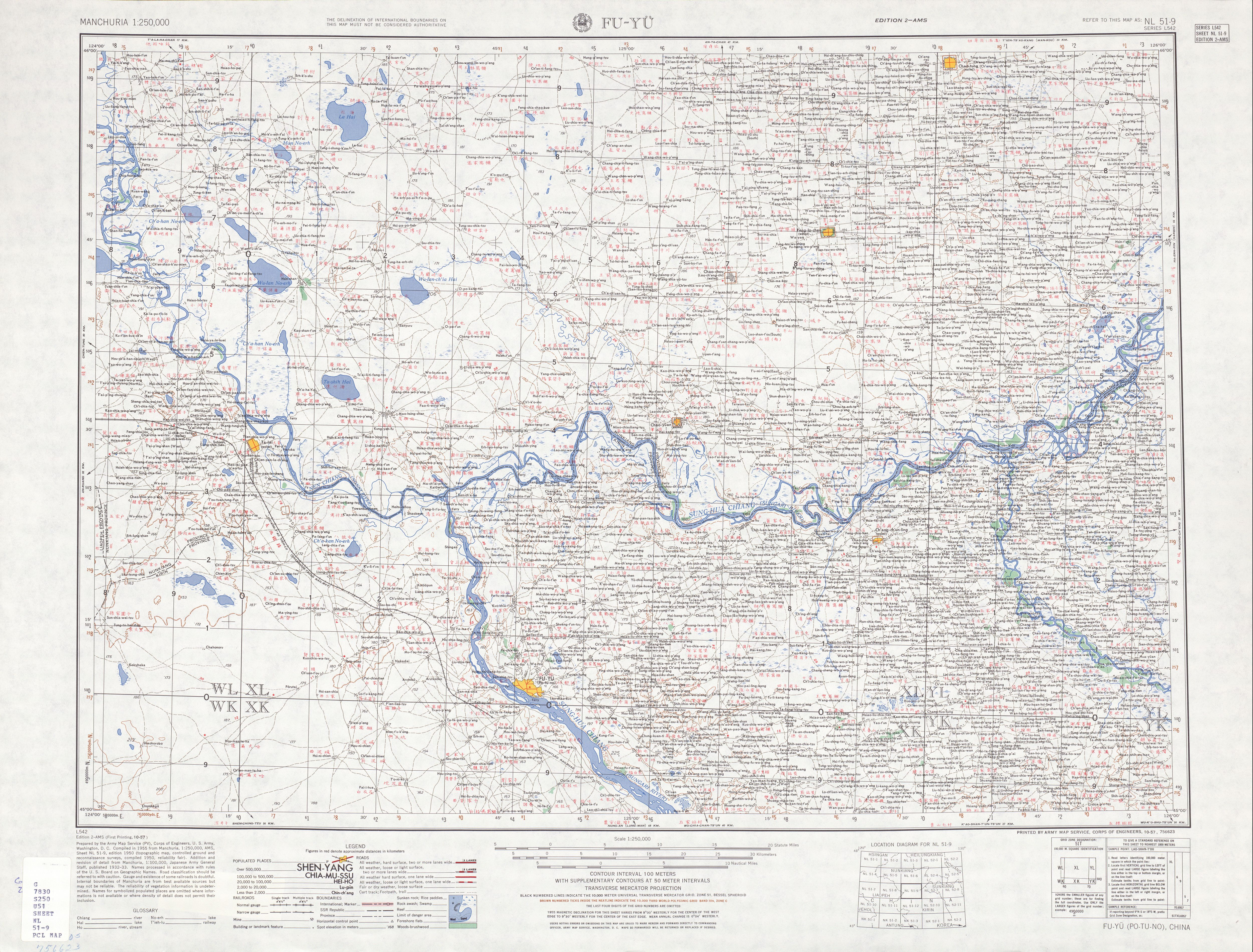 Manchuria AMS Topographic Maps